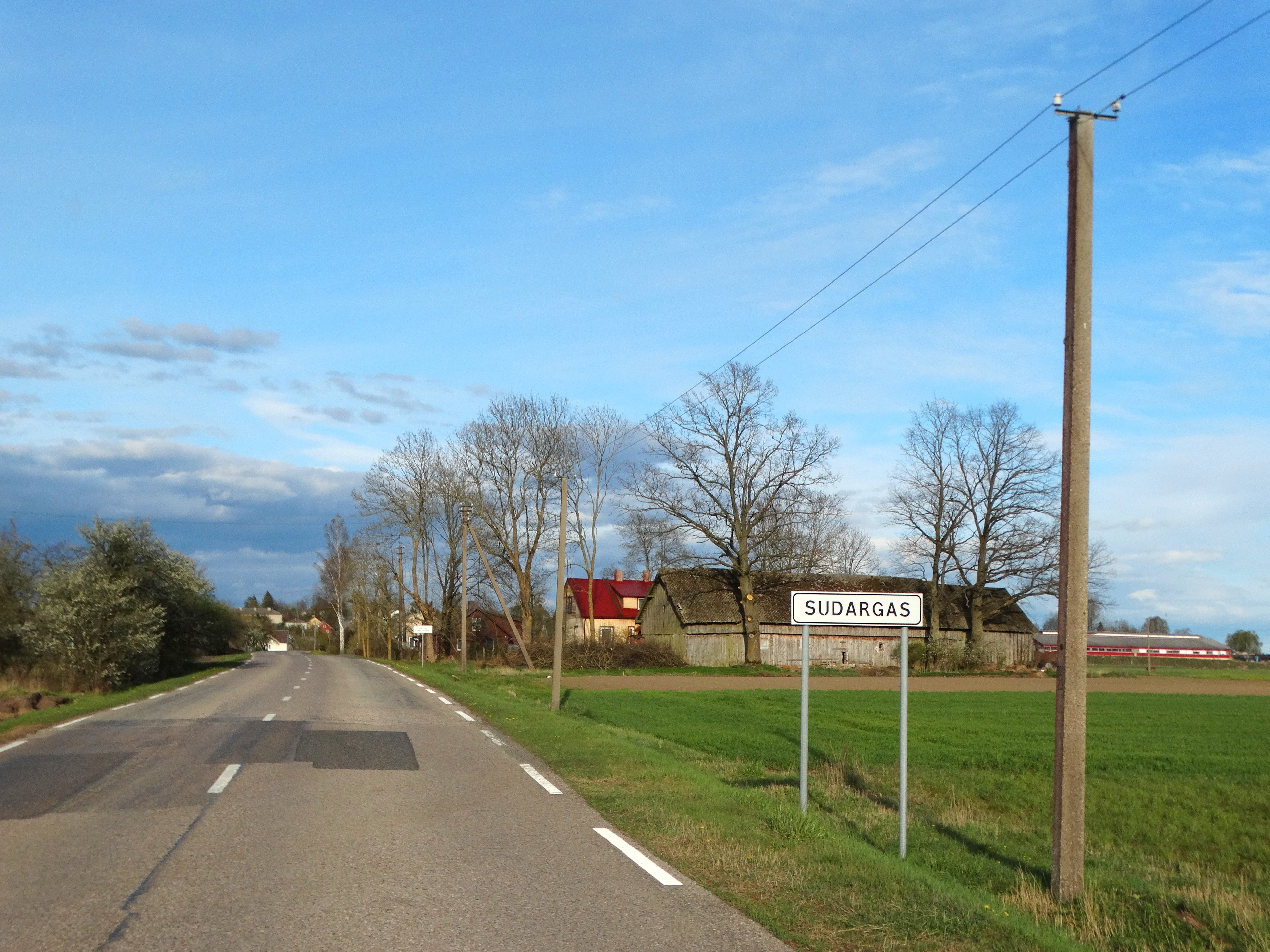 Sudargas, Šakiai district, Lithuania